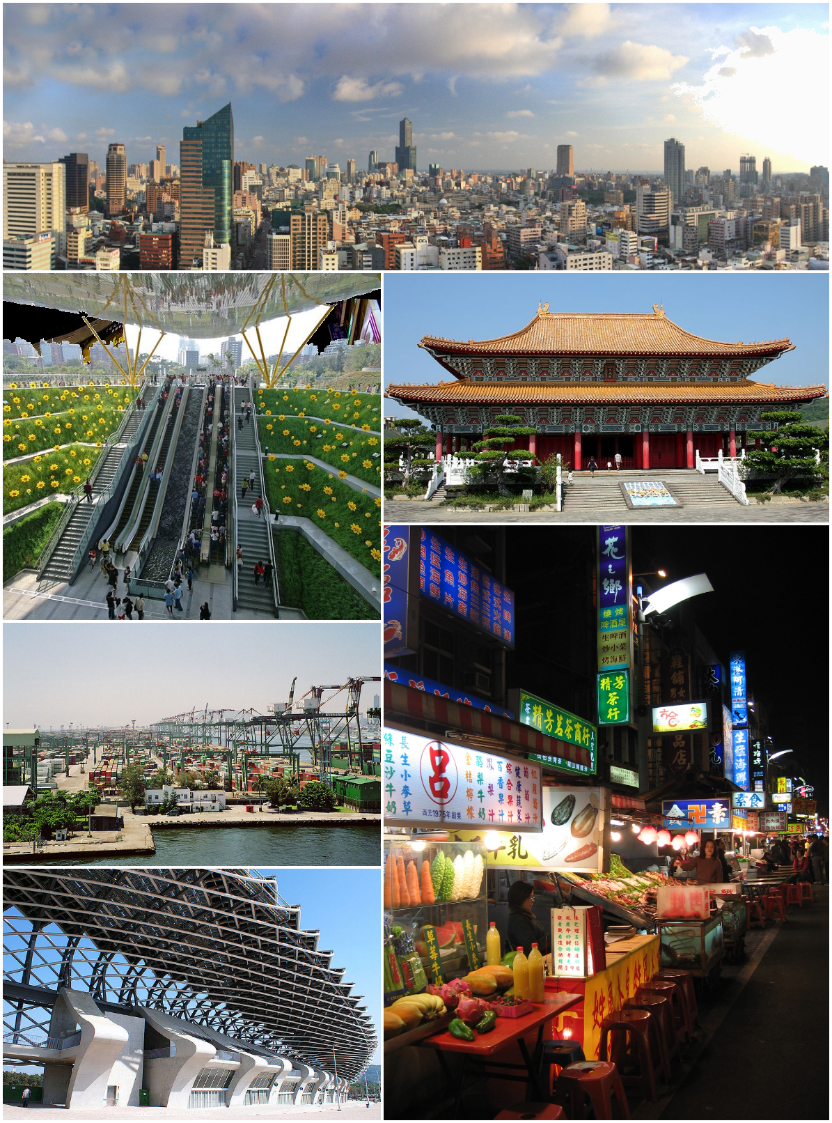 Montage of various Kaohsiung images